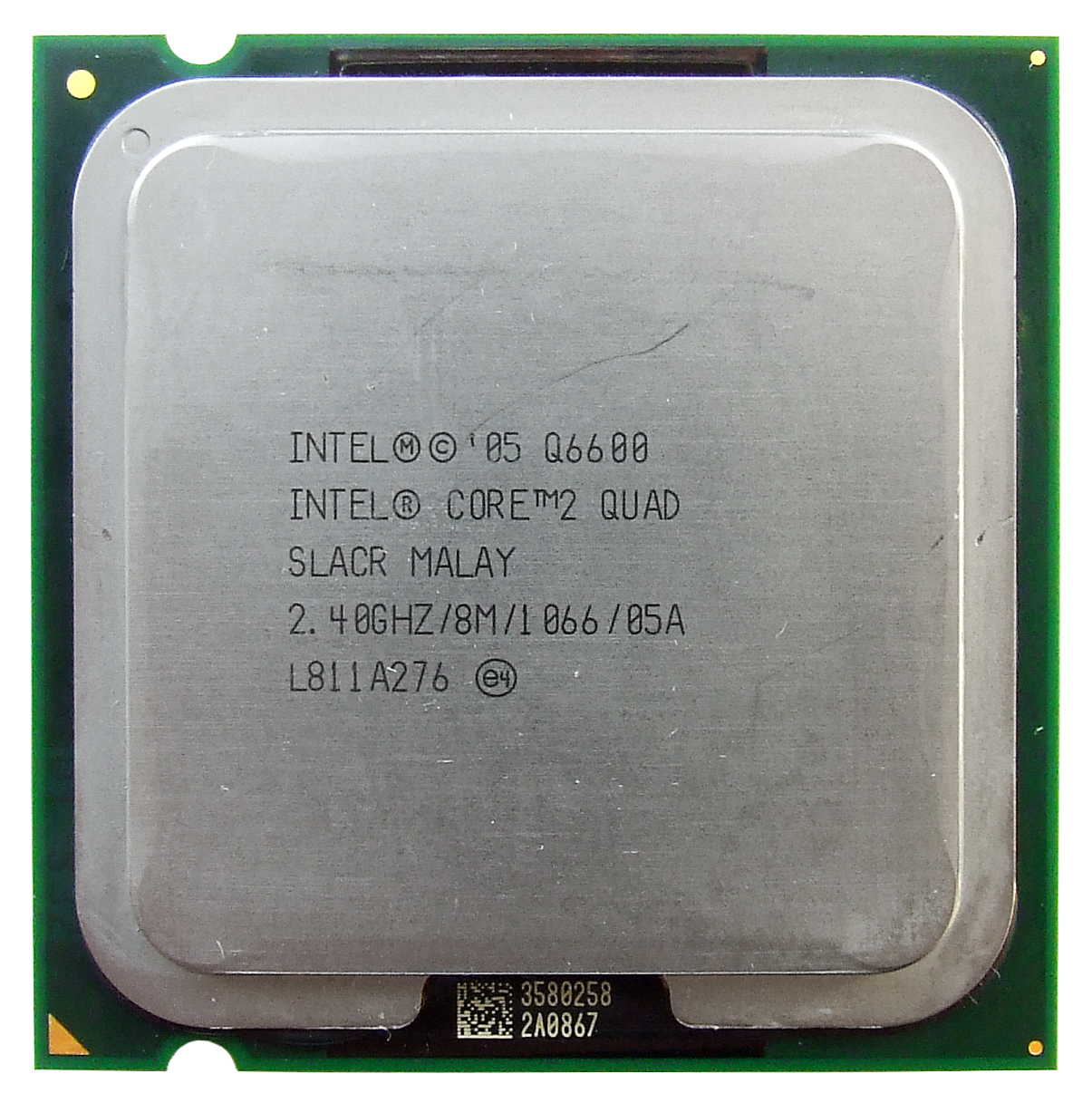 Intel Core 2 Quad Q6600 microprocessor, sSpec number SLACR. Technical specifications: Socket: LGA775 Core: Quad core Stepping: G0 (Kentsfield 65 nm) Clock speed: 2400 Mhz Cache: 4x 32 KB L1 + 2x 4 MB L2 (shared) FSB: 1066 Mhz QP TDP: 95 W